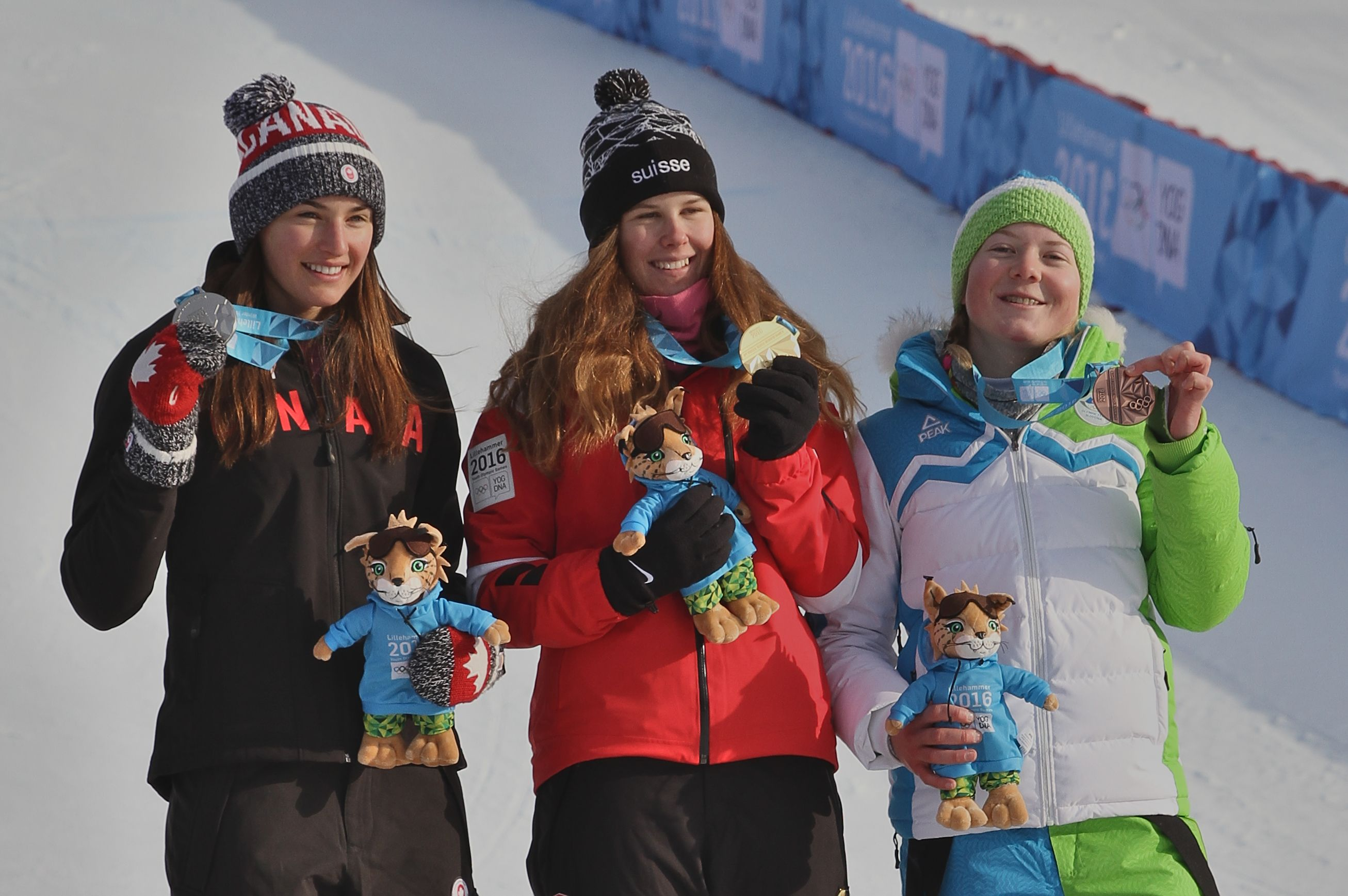 Lillehammer 2016 Ladies' slalom - Aline Danioth (Switzerland, gold), Ali Nullmeyer (Canada, silver), Meta Hrovat (Slovenia, bronze)